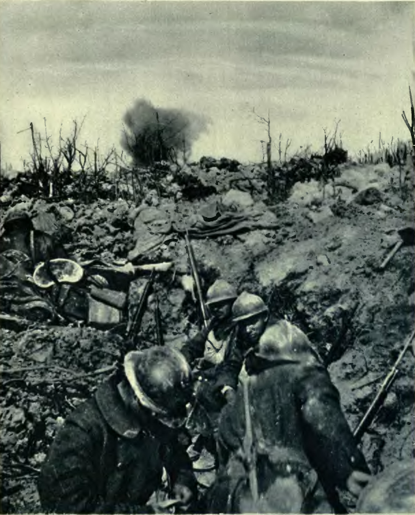 "Artillery work completed with the bayonet : French victors after an assault". French troops in a captured German trench, 1916.